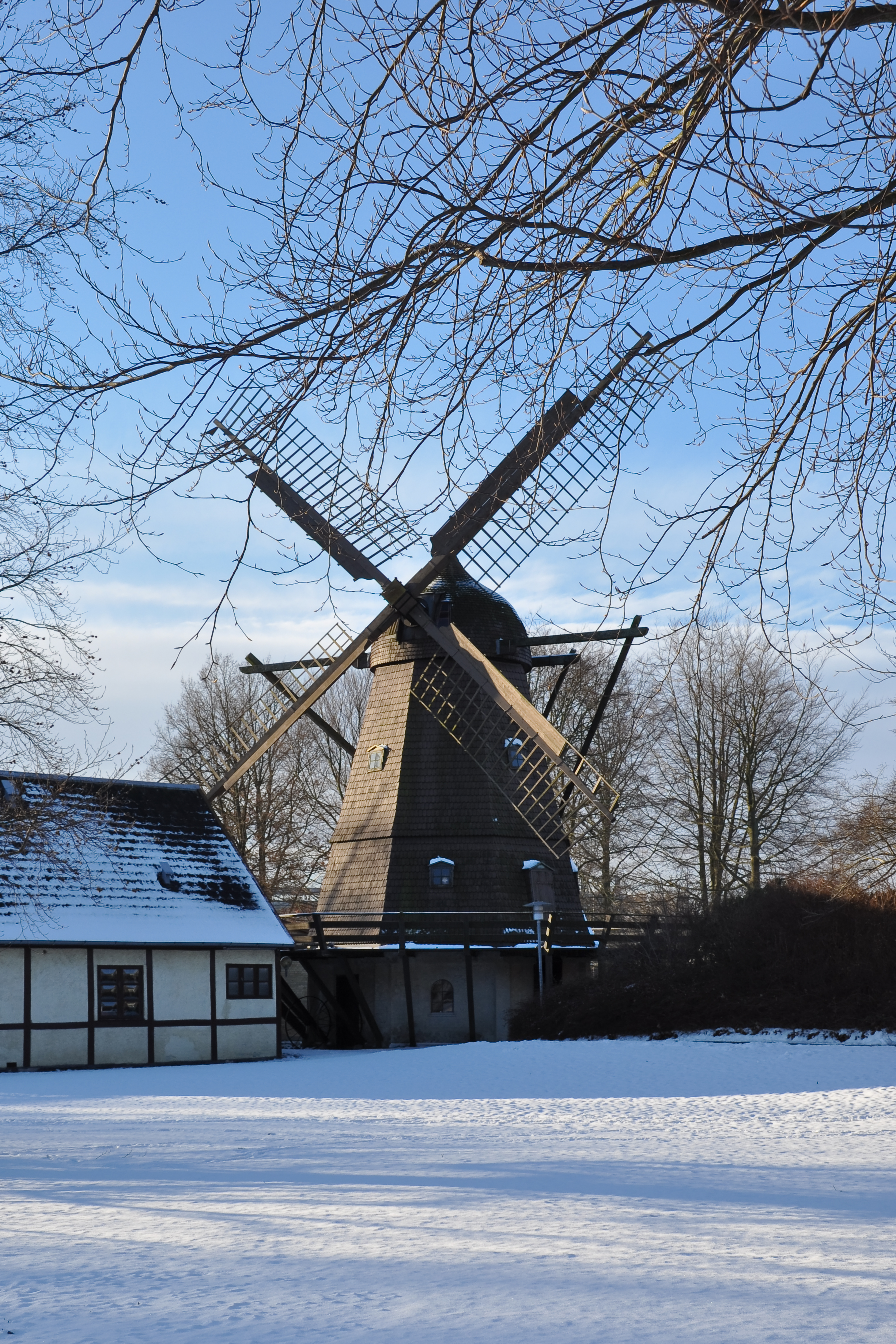 Brøndbyvester Windmill, Brøndby, Denmark.